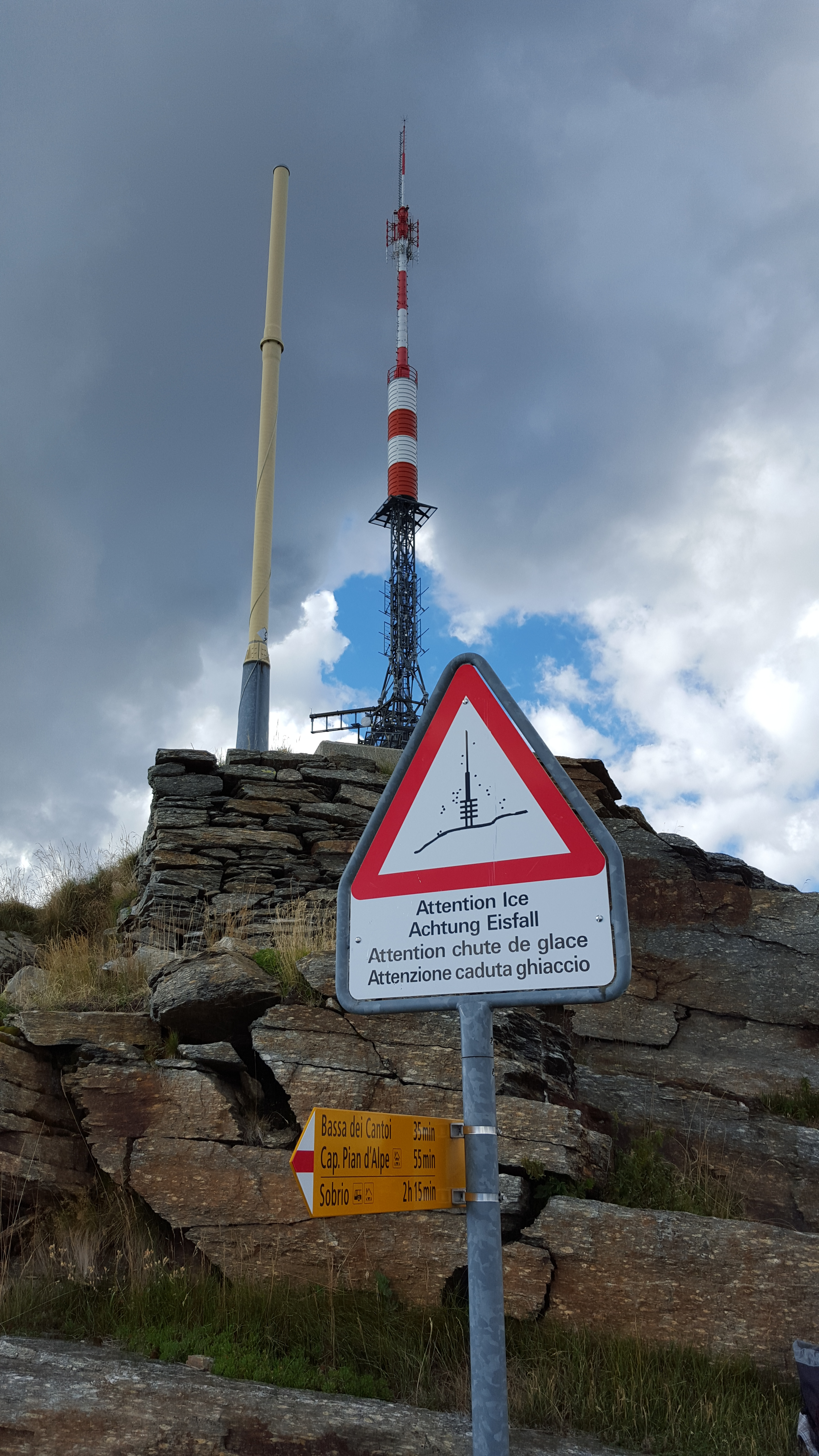 Tower and sign on Matro (Serravalle/Sobrio, Ticino, Switzerland)